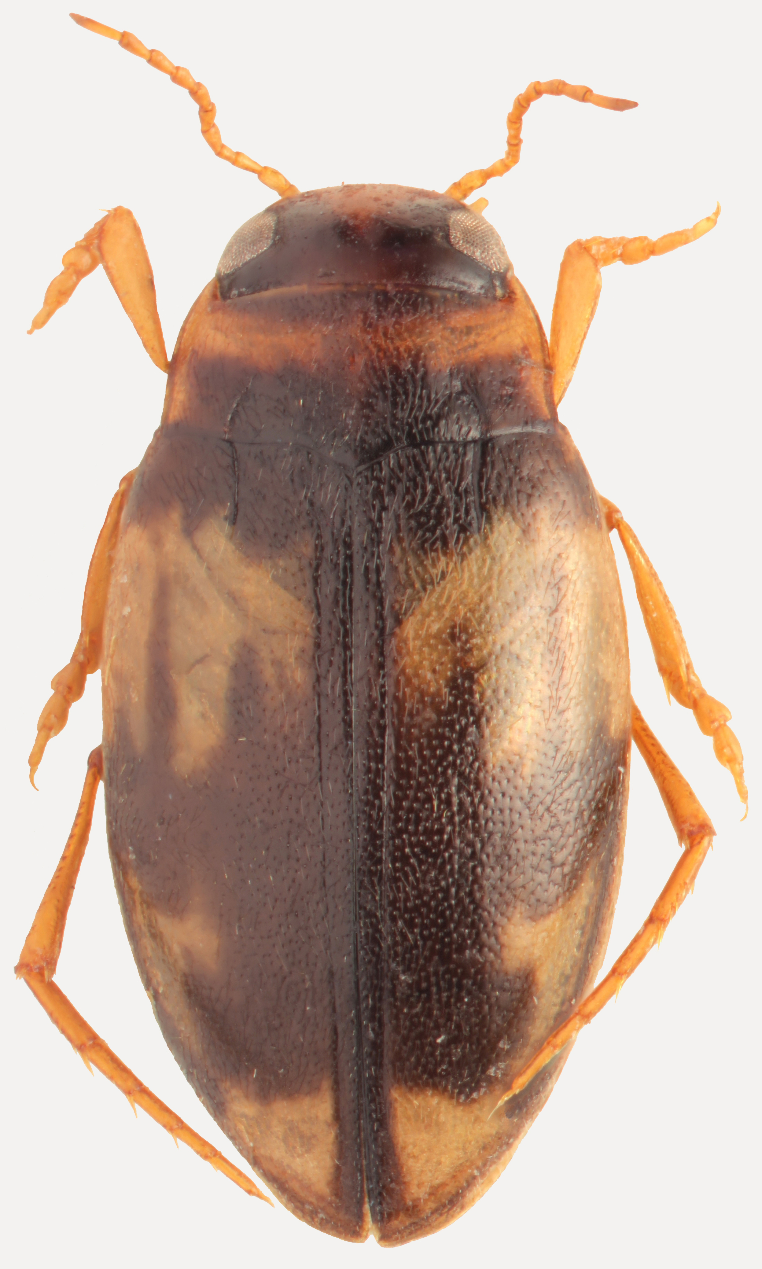 Dorsal habitus of Hydroglyphus sinuspersicus from the United Arab Emirates